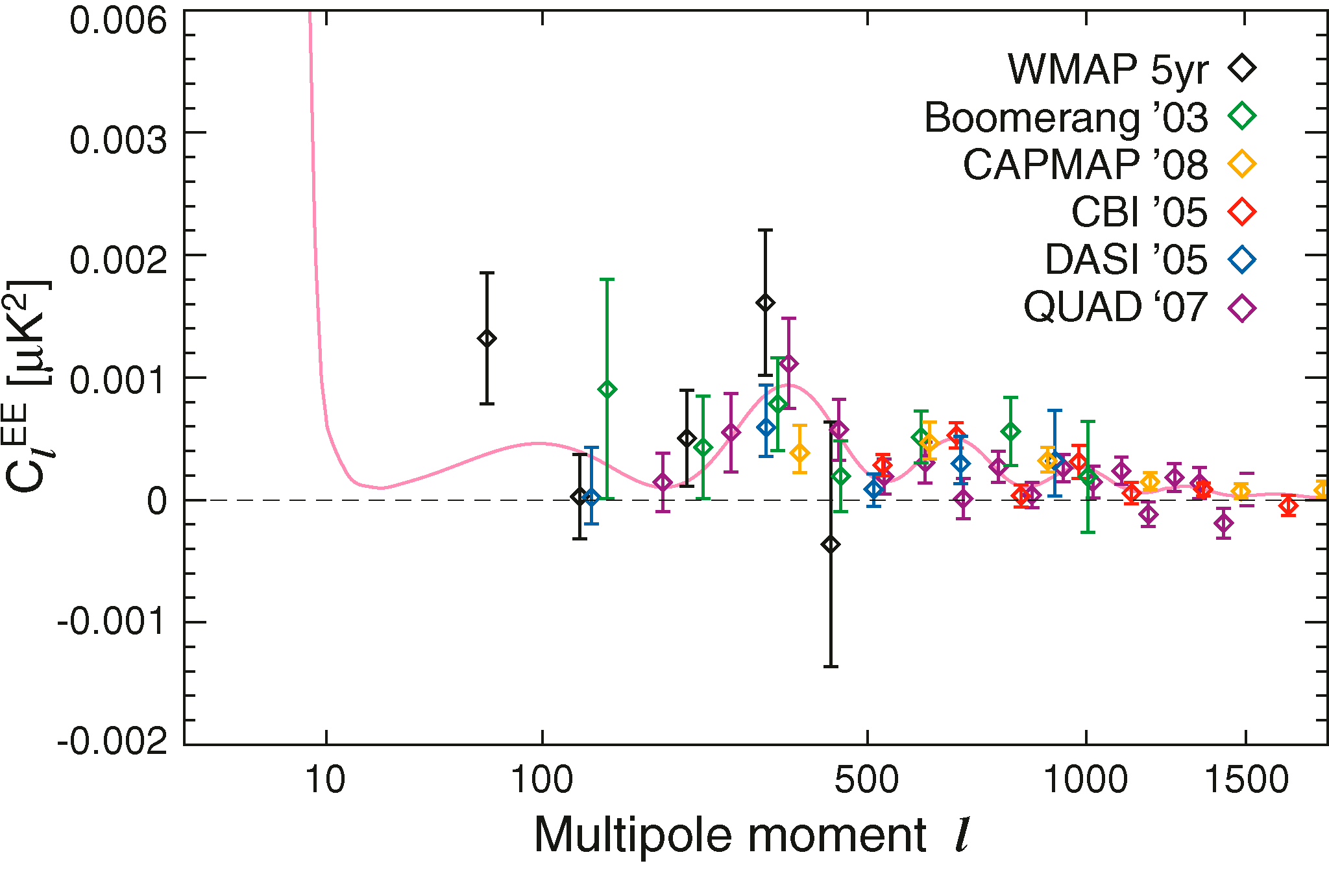 WMAP 5-year EE power spectrum, compared with results from the Boomerang (Montroy et al., 2006, green), CBI (Sievers et al. 2007, red), CAPMAP (Bischoff et al., 2008, orange), QUAD (Ade, et al., 2007, purple), and DASI (Leitch et al., 2005, blue) experiments. The pink curve is the best-fit theory spectrum from the ΛCDM/WMAP Markov chain (Dunkley et al., 2008).